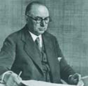 Photo of Heinrich Koppers, German coke oven and coal gasification engineer